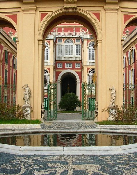 In the garden of the Royal Palace in Genoa (Italy). Picture taken by user:Idéfix, january 2005